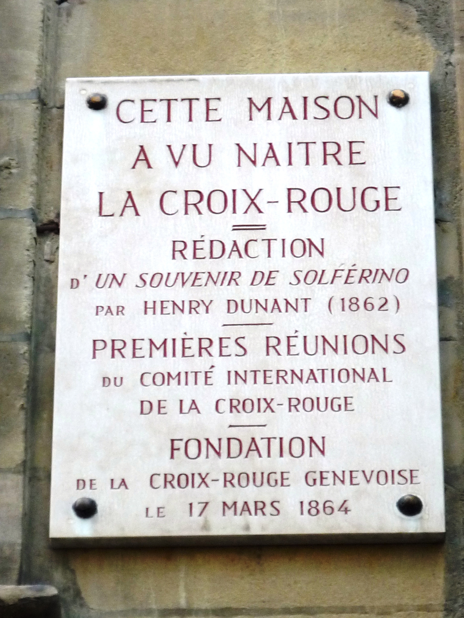 This plaque was affixed 9 February 1988 on the former place of residence of Henry Dunant, one of the founders of the Red Cross. It is the rue du Puits-St-Pierre 4 in Geneva. It was in this building that he wrote his book "A Memory of Solferino" that, having held the first informal meetings to discuss aid to the wounded in wars and culminating later in other places, the creation of international Committee of the Red Cross (ICRC).